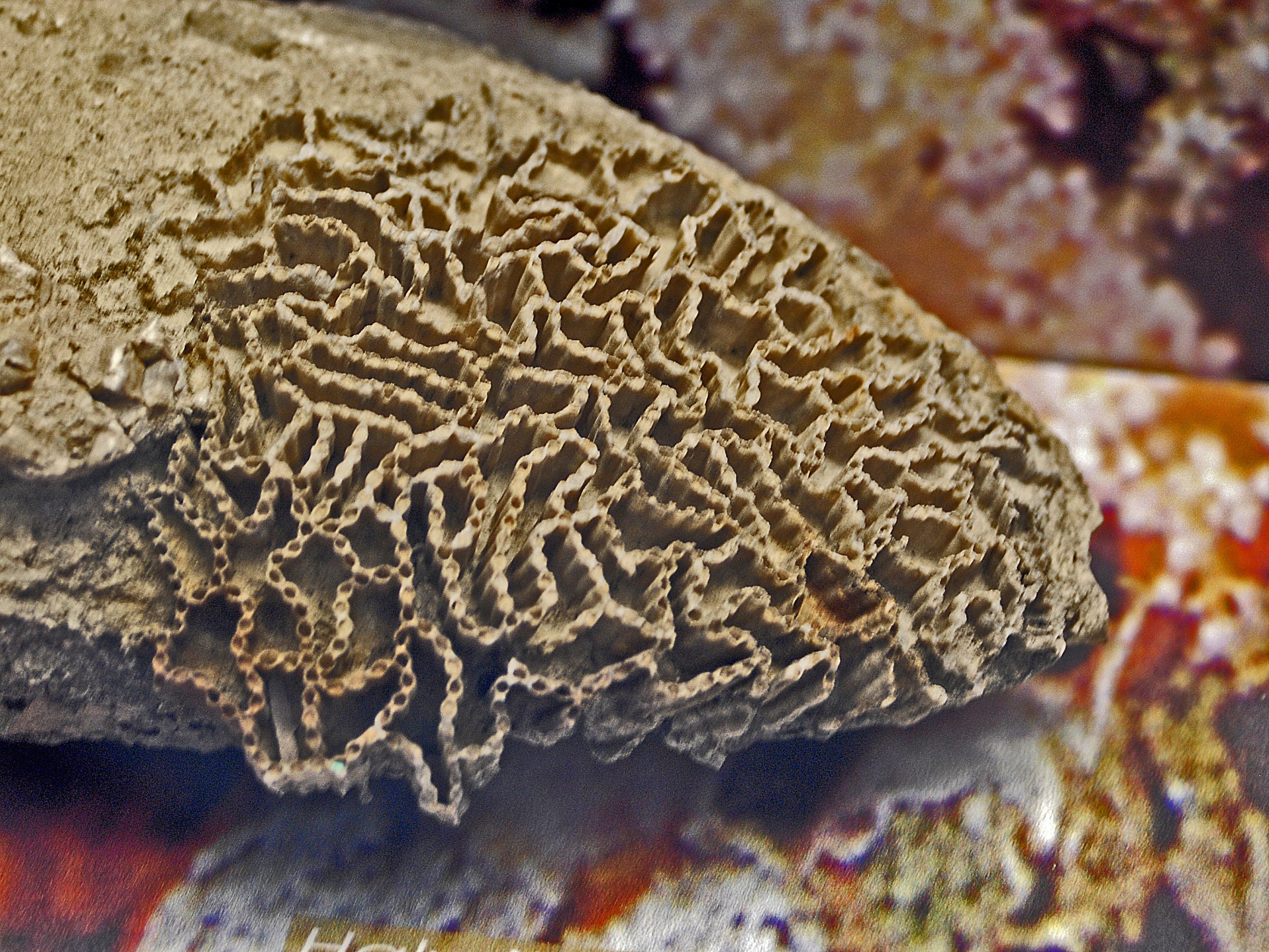 Halysites catenularia . On display at the Museo Civico di Storia Naturale di Milano